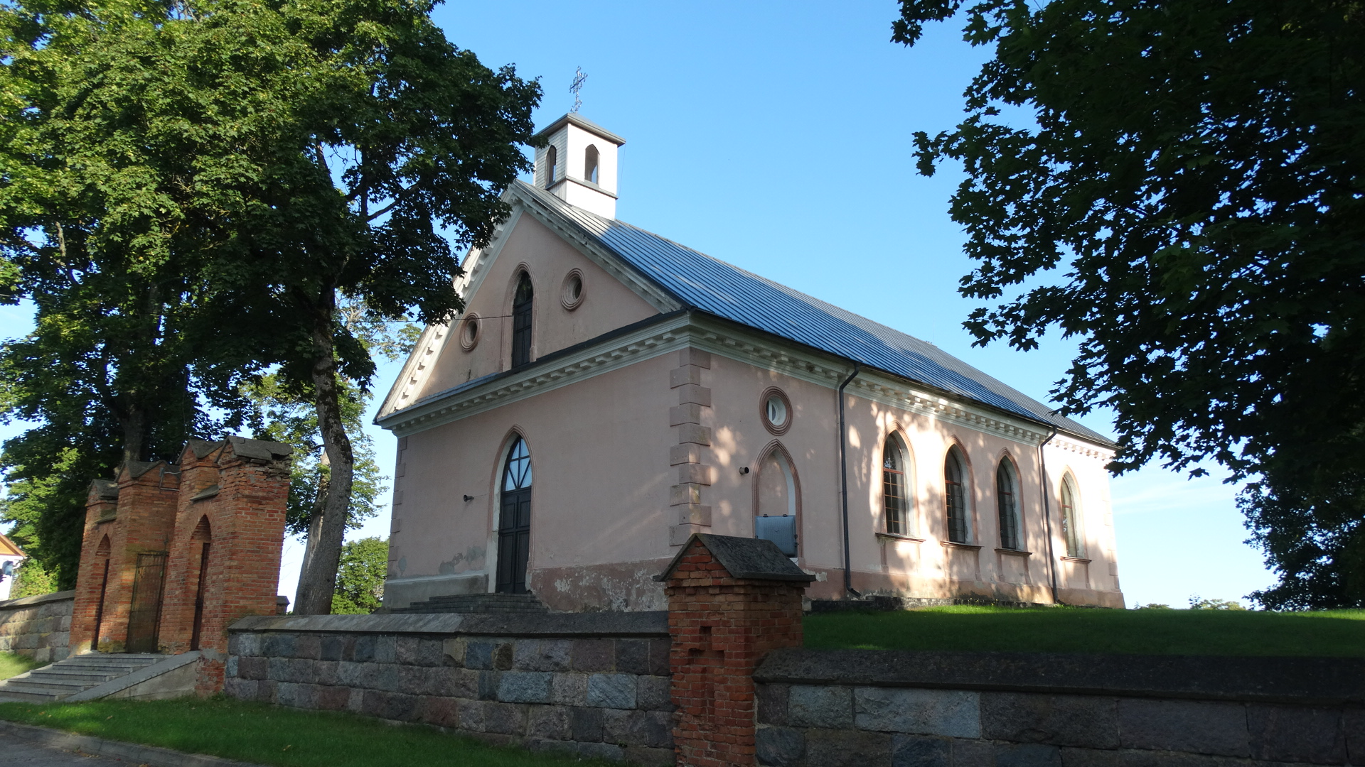 Church of St. Felix of Valois, Sužionys, Vilnius District, Lithuania